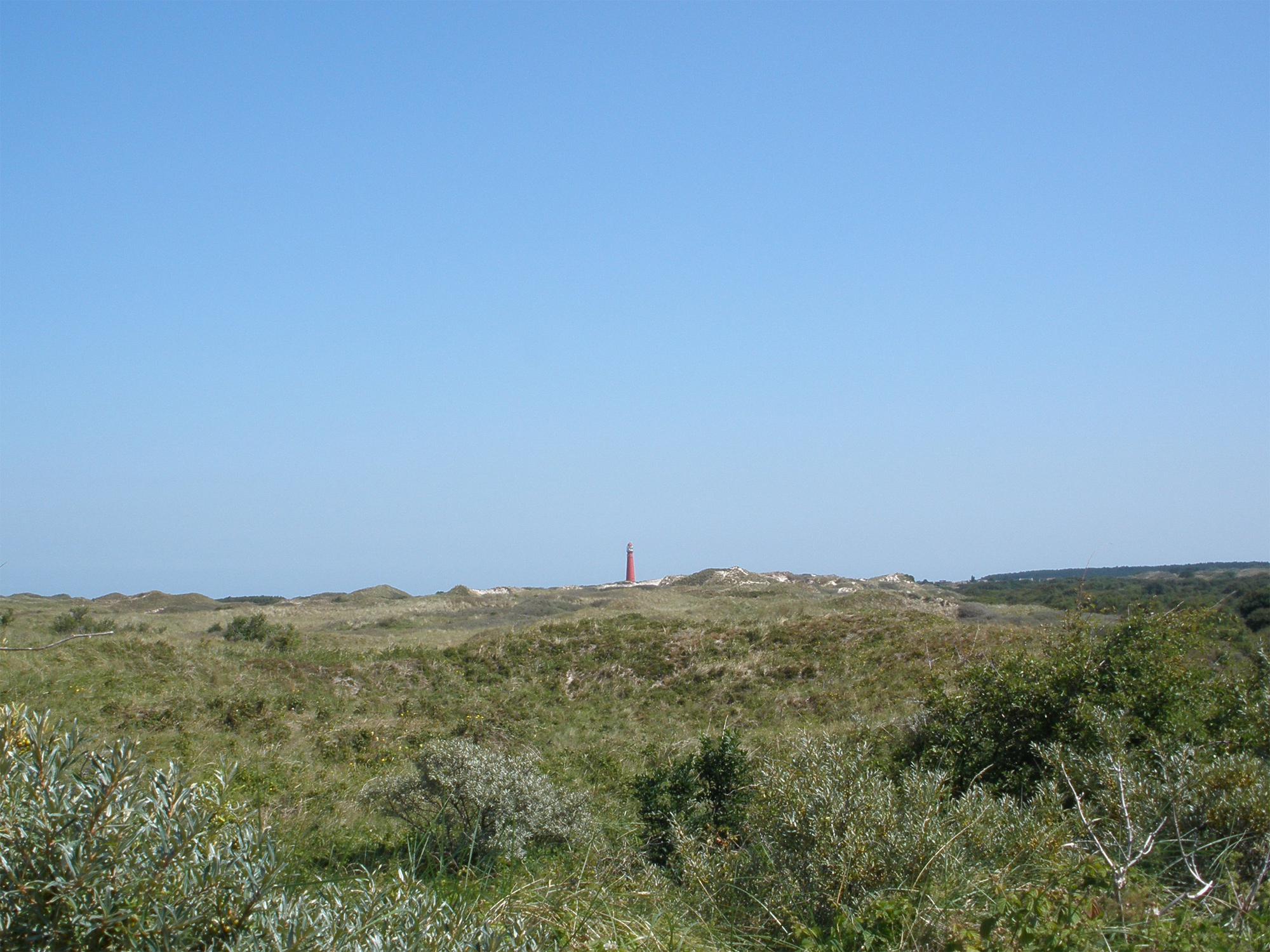 Dune landscape on the Dutch island of Schiermonnikoog. The island's red lighthouse is visible in the distance in the centre of the photo.